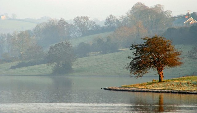 Mist at the Corbet Lough near Banbridge. As well as the frost 1099187 a light mist lingered throughout the day. 560642 and 585370 show a similar view in better light.